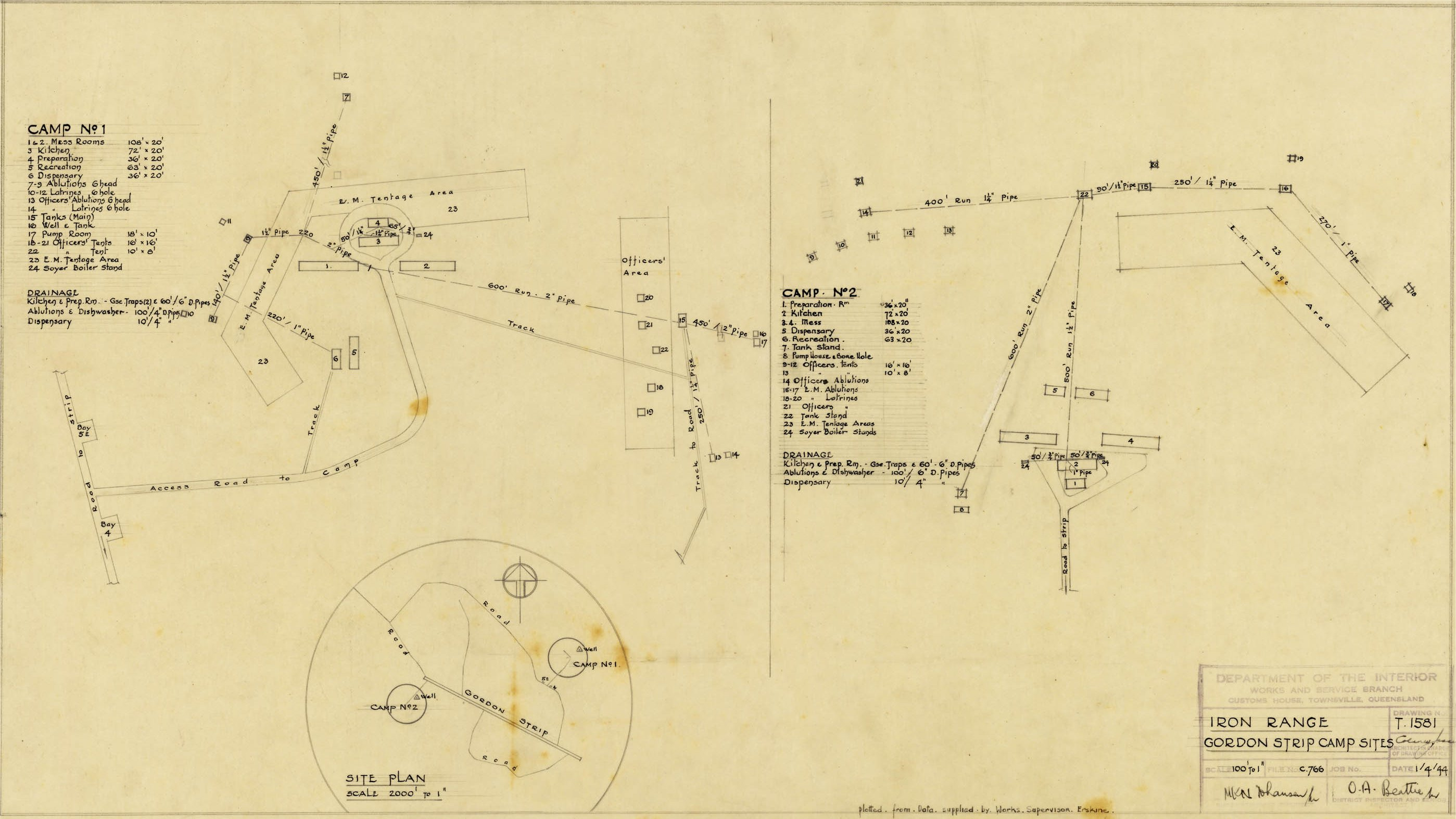 Photo by WE ROLLINS published